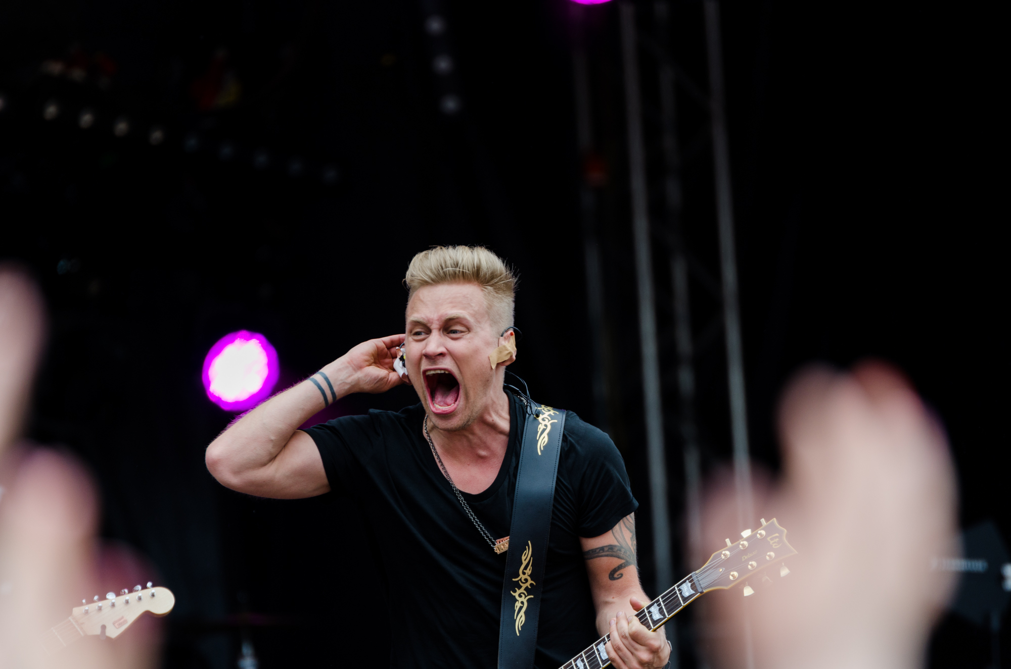 Jimi Constantine in YleXPop 2014 in Oulu, Finland